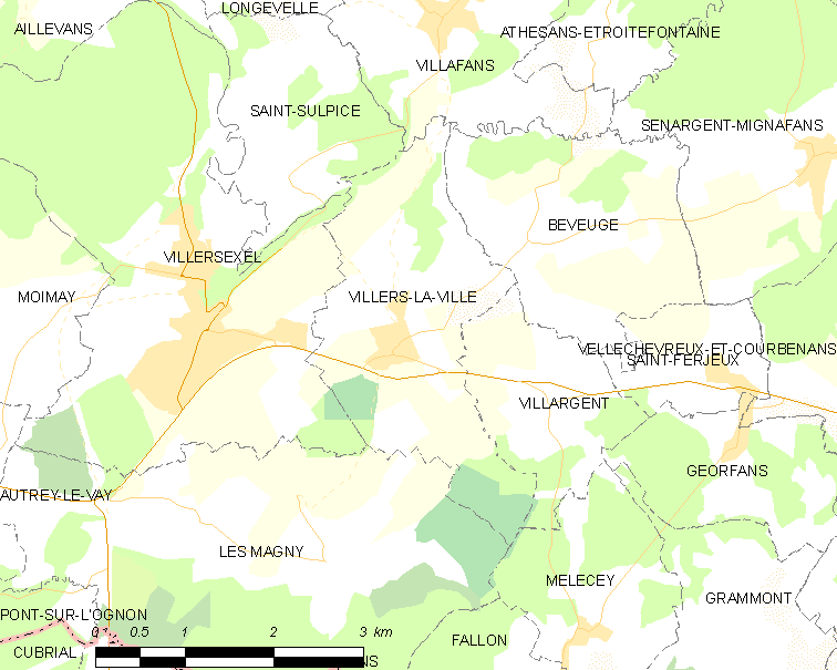 Map of French municipality